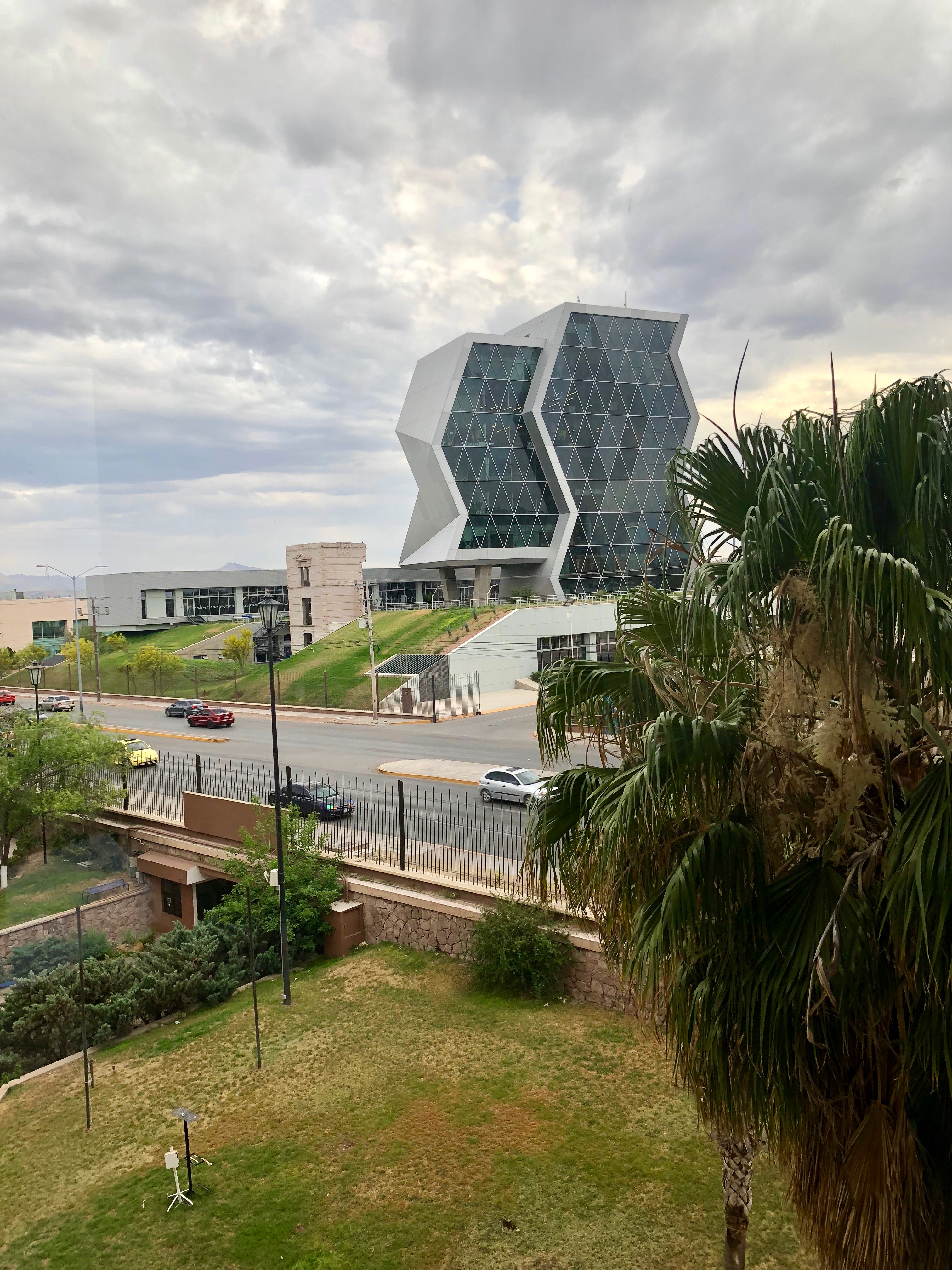 El Parque de Innovación y Transferencia Técnica y Tecnológica (PIT3) en el ITESM Campus Chihuahua